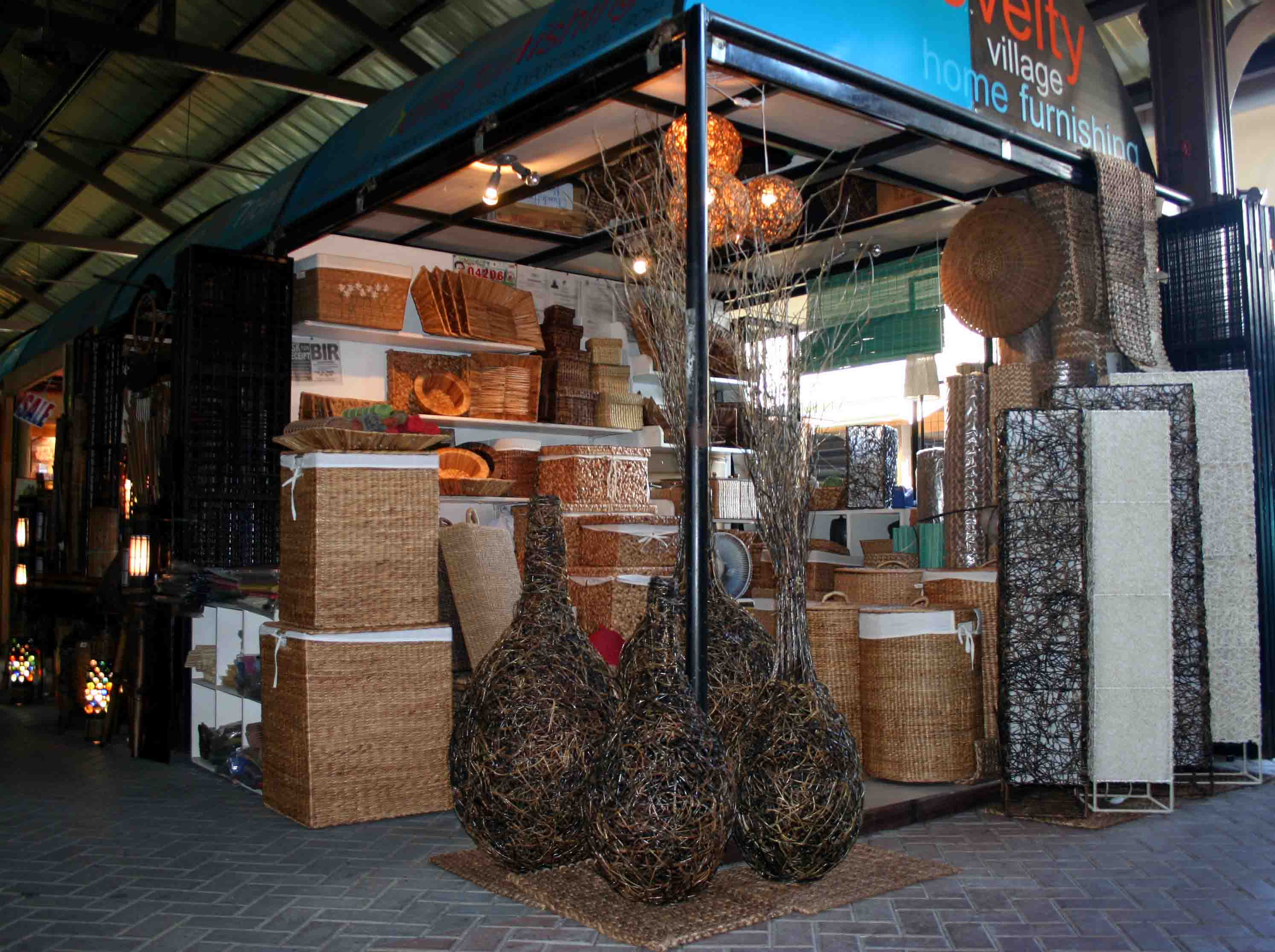 Picture of Handicrafts Village in Tiendesitas